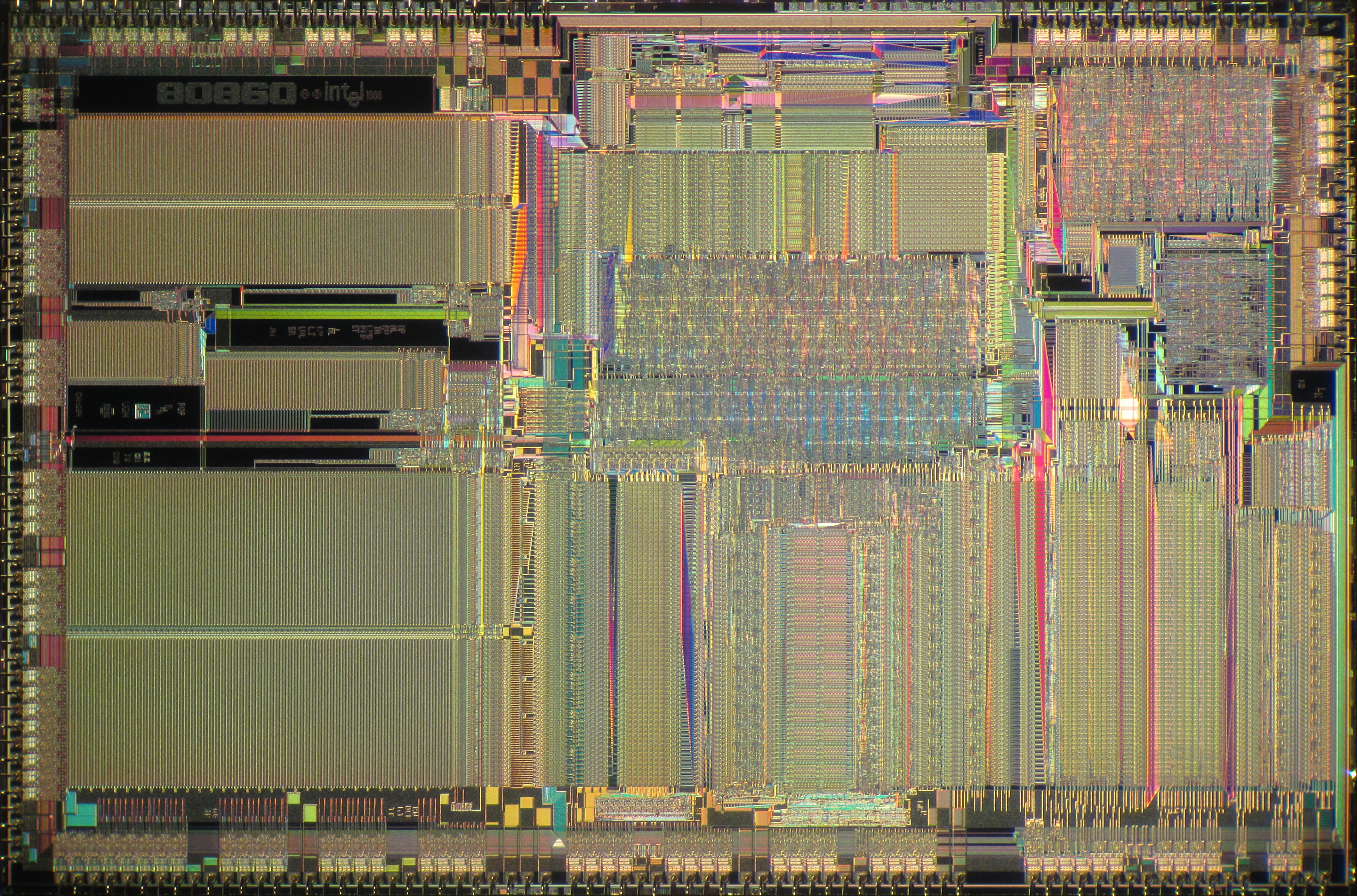 Die shot of Intel 80860XR microprocessor (A80860XR-40, SX438).